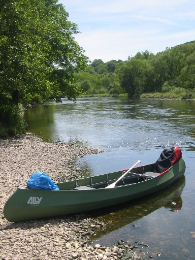 Ally folding canoe Tour